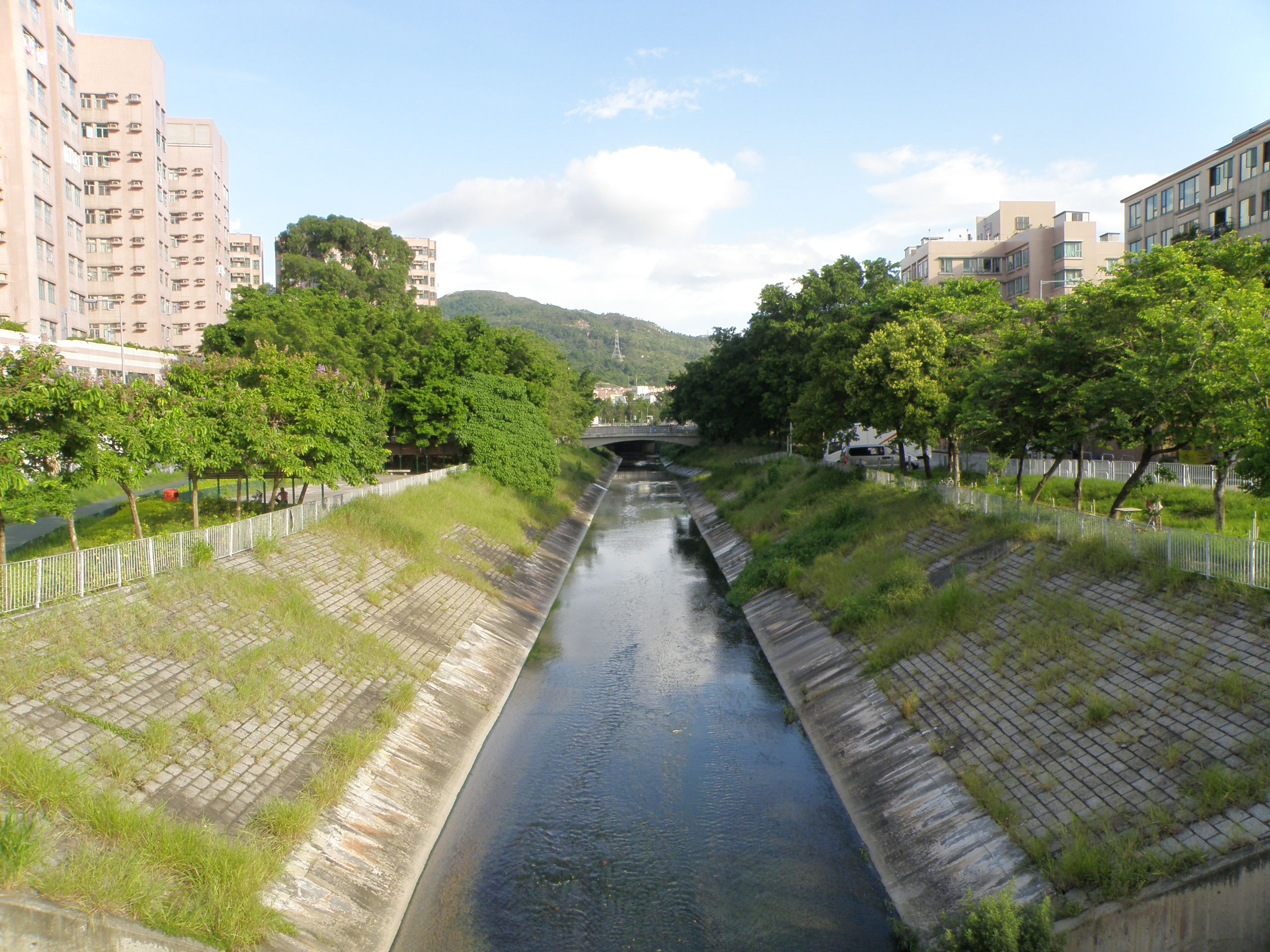 Tin Shui Wai Nullah in Hung Shui Kiu, Hong Kong.